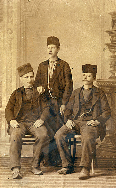 Gone Beginin, Milan Delchev and M. Delev